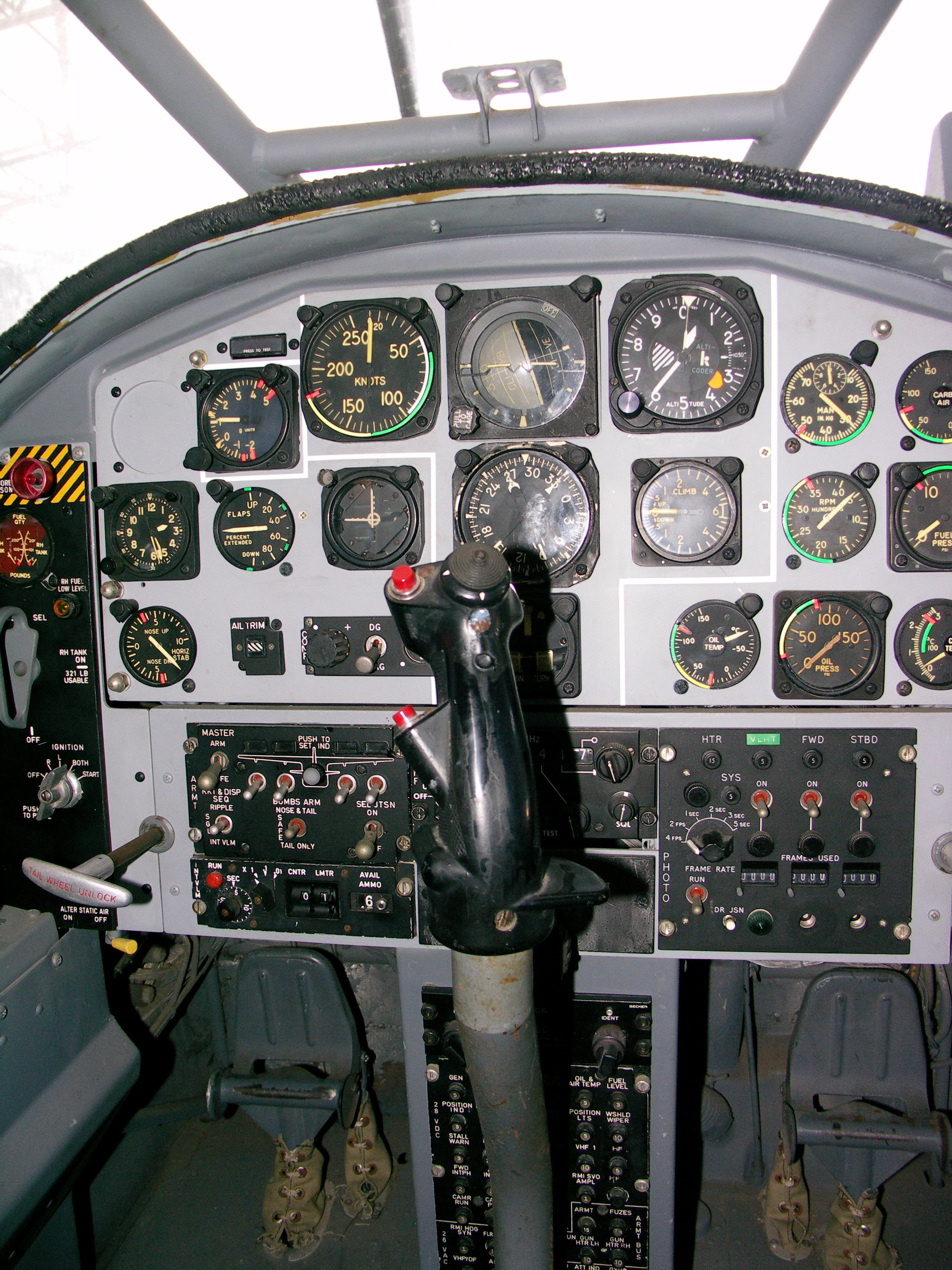 Interior view of the Bosbok. Photo taken at SAAF museum, Port Elizabeth, South Africa of a Bosbok undergoing restoration. This is Serial No. 920 [1]